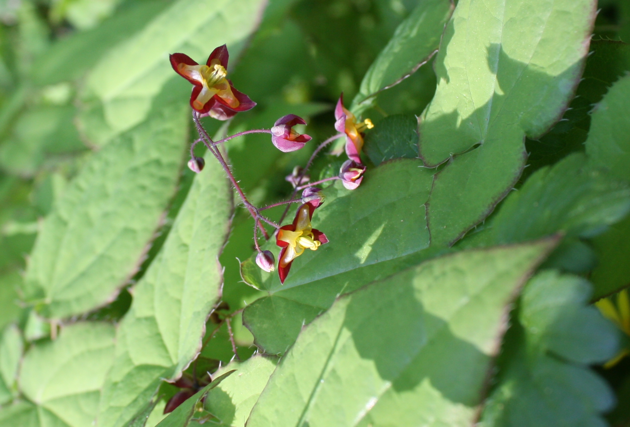 Alpine barrenwort (Epimedium alpinum) in The University of Helsinki Botanical Garden in Kaisaniemi